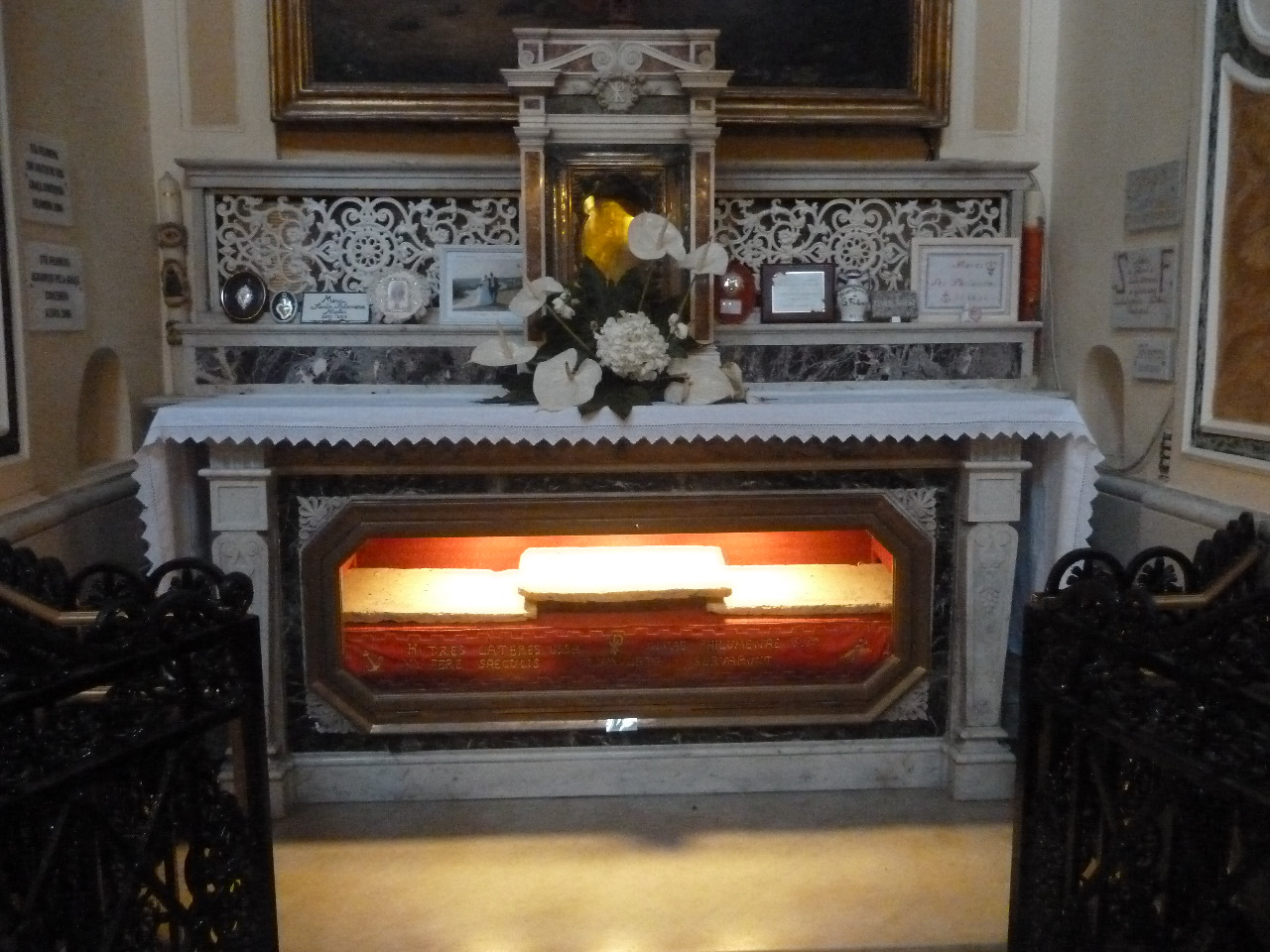 Altar with the tombal stones of Saint Philomena - Santuario di Santa Filomena (Mugnano del Cardinale, Avellino - Italy)